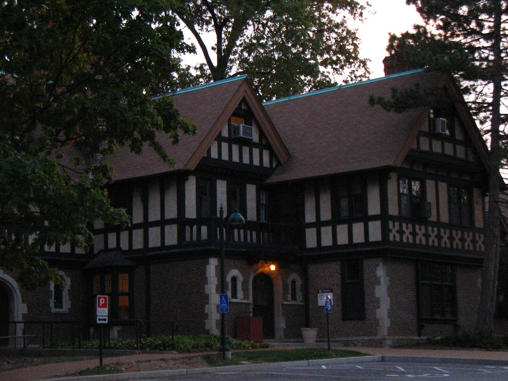 Blewett Hall (Department of Music); Danforth Campus of Washington University in St. Louis (WUSTL)